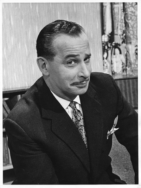 Scanned from publicity photo. All photos of Roy Ward Dickson are the property of the Estate of Roy Ward Dickson, whose heirs have built this wiki entry. Copy also published at Roy's official site at